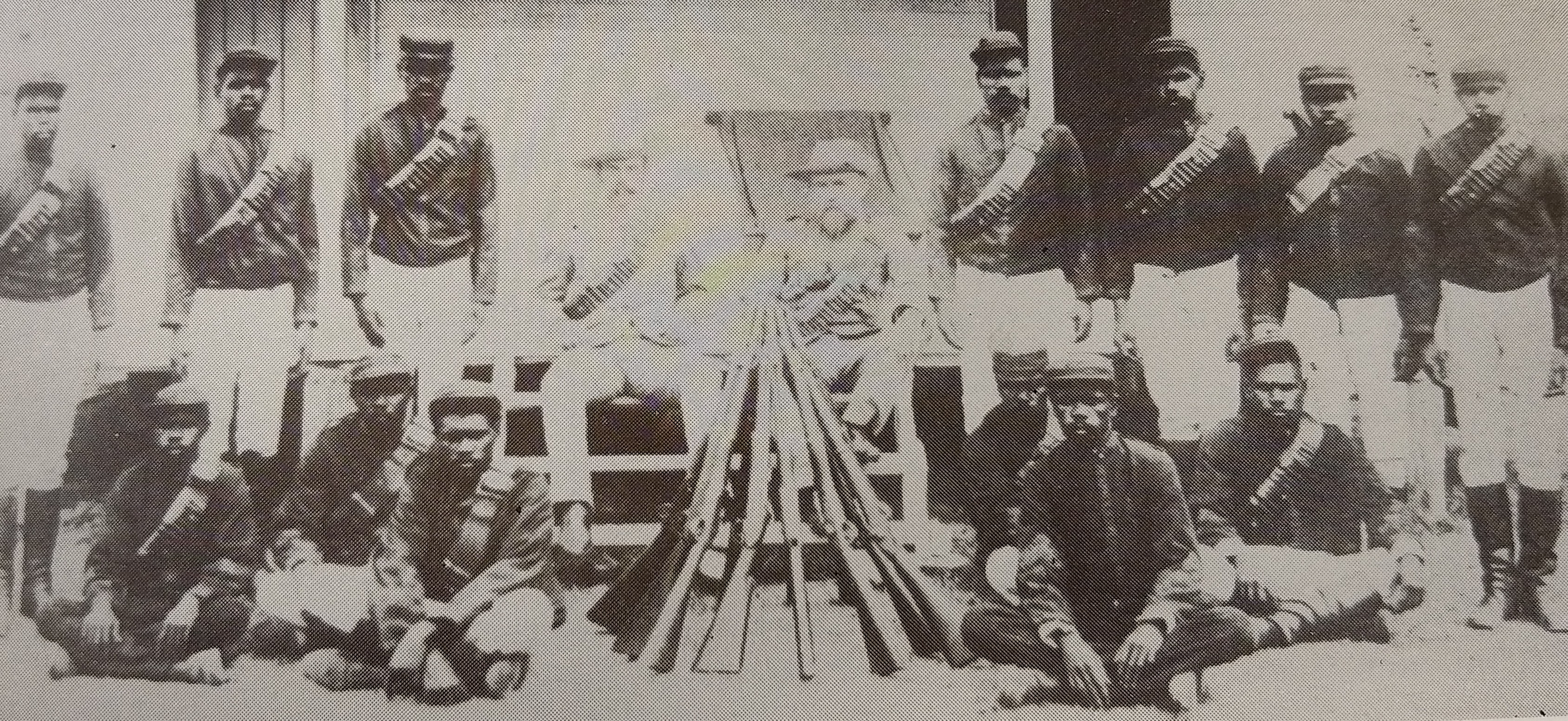 Native Police detachment at Musgrave around 1898